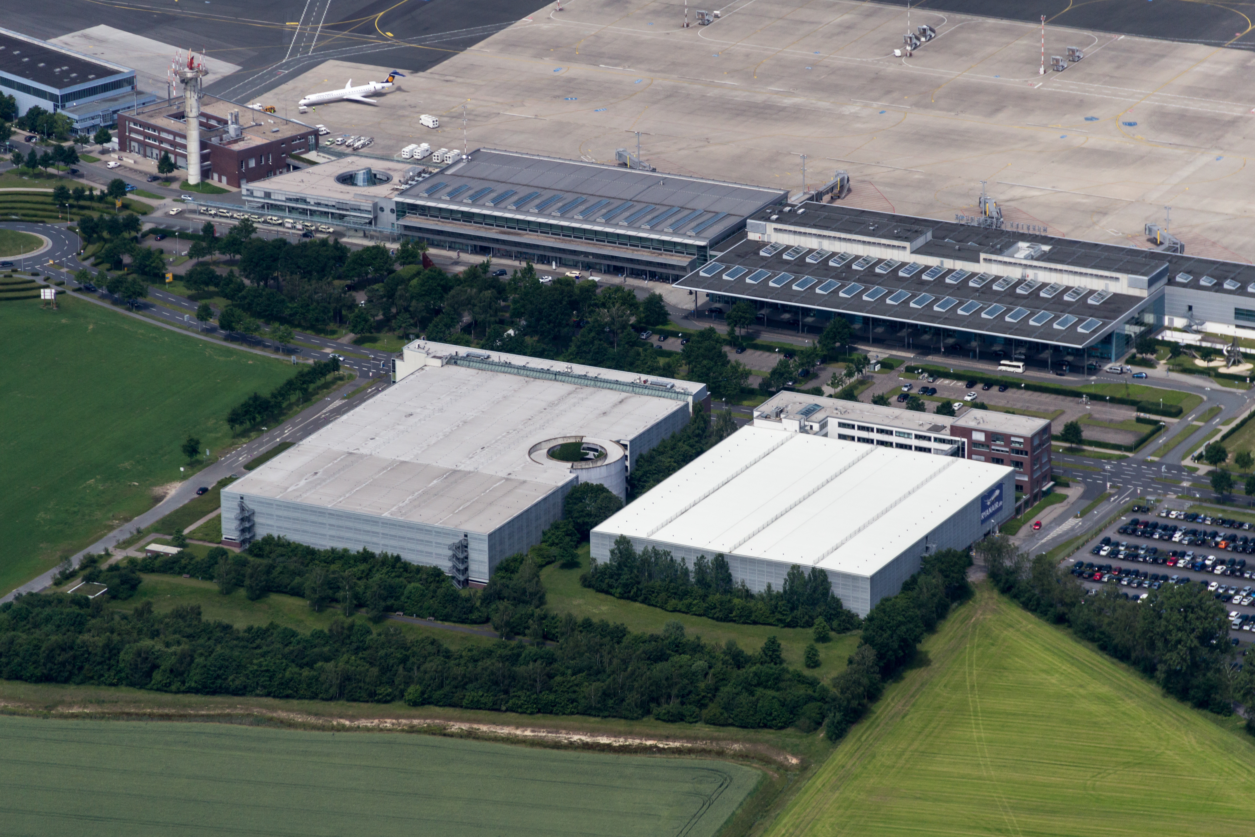 Airport of Münster-Osnabrück, Greven, North Rhine-Westphalia, Germany